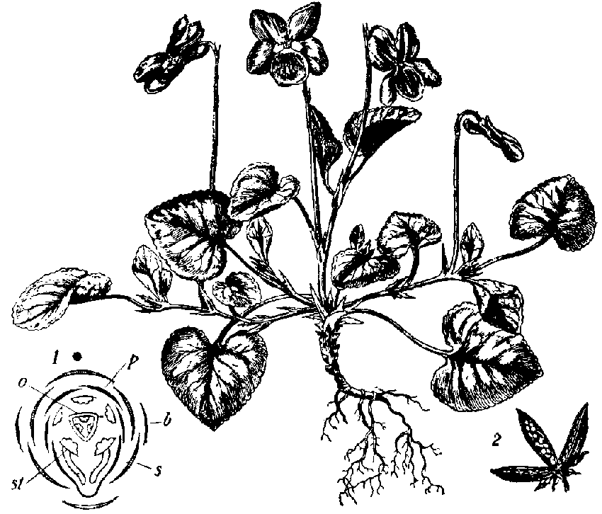 Drawing of dog violet (Viola canina)